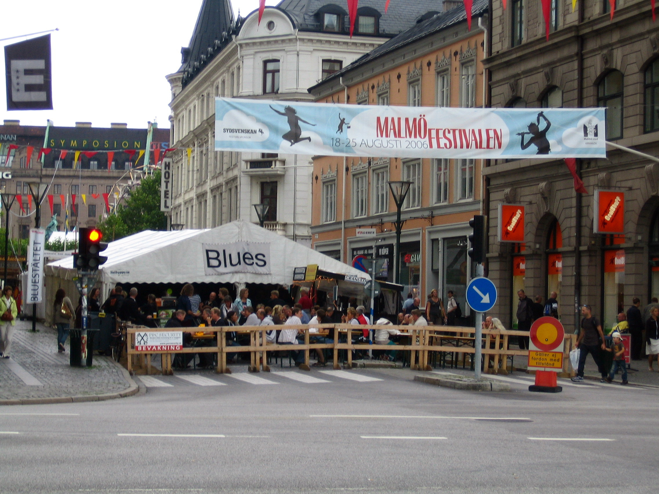 The festival in Malmö, Sweden.